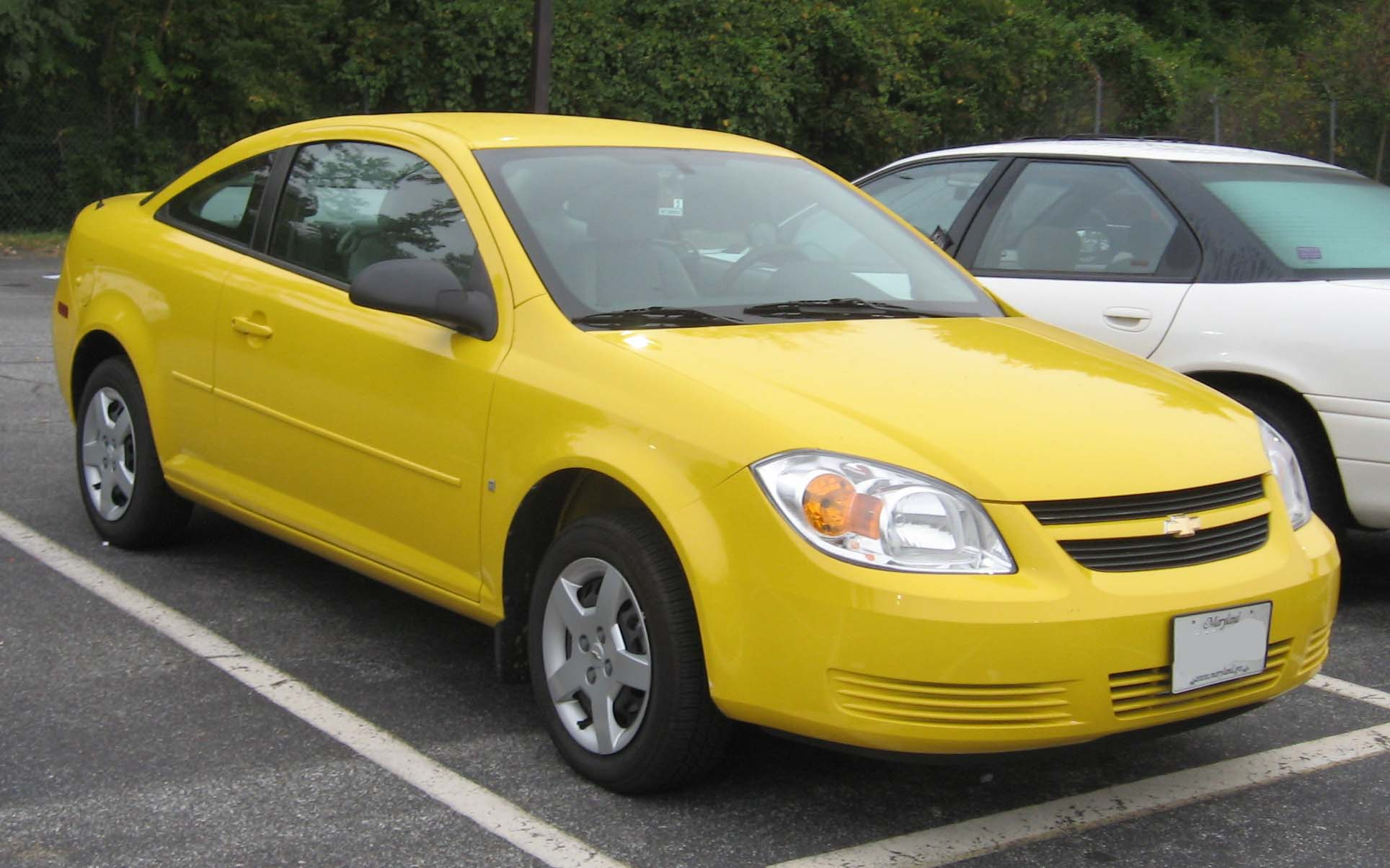 2005-2008 Chevrolet Cobalt photographed in College Park, Maryland, USA.